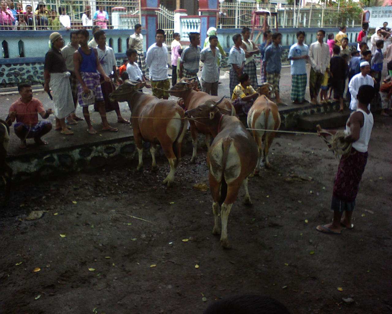 Cows for Eid ul-Adha, Indonesia